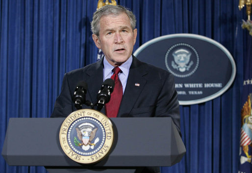 President and Mrs. Bush Extend Condolences Regarding Assassination of Benazir Bhutto, Condemn Violence